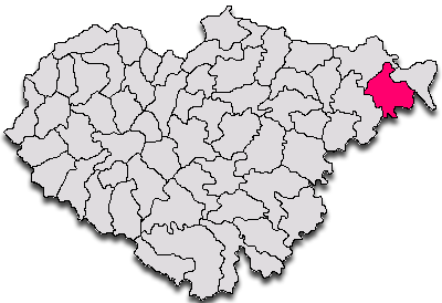 Map Salaj County Romania